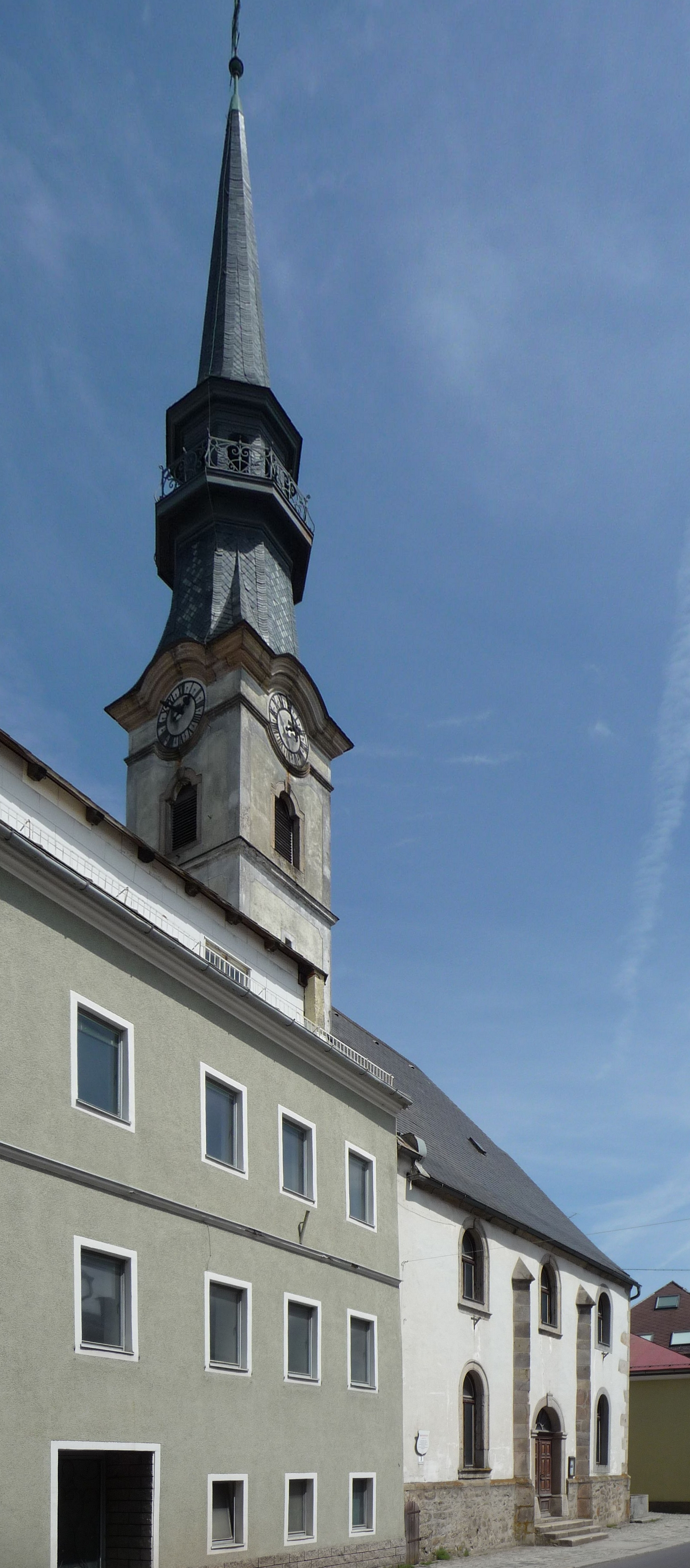 The old Church of the hospital in Bad Leonfelden